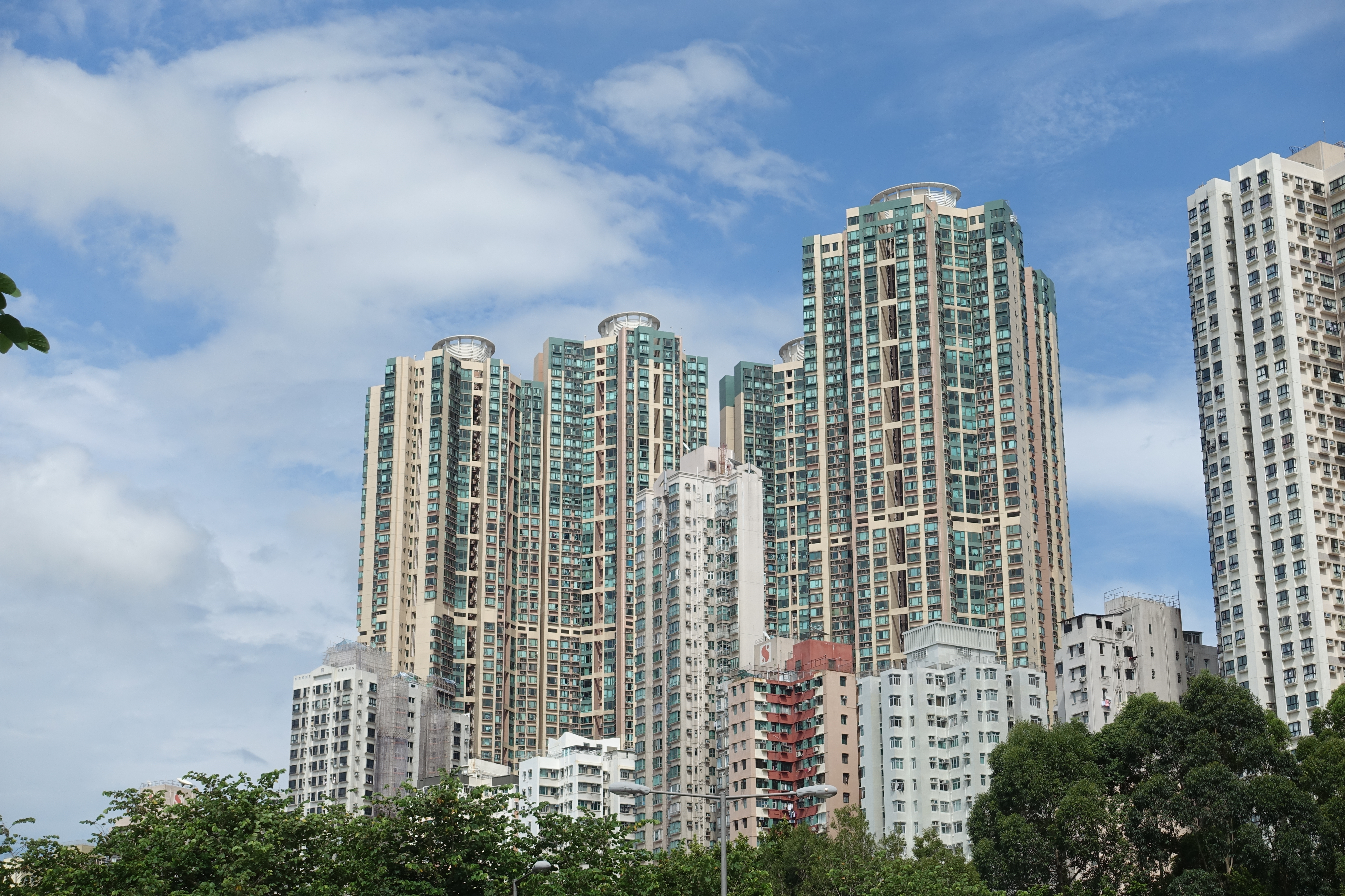 The Belcher's, Pok Fu Lam, Hong Kong.